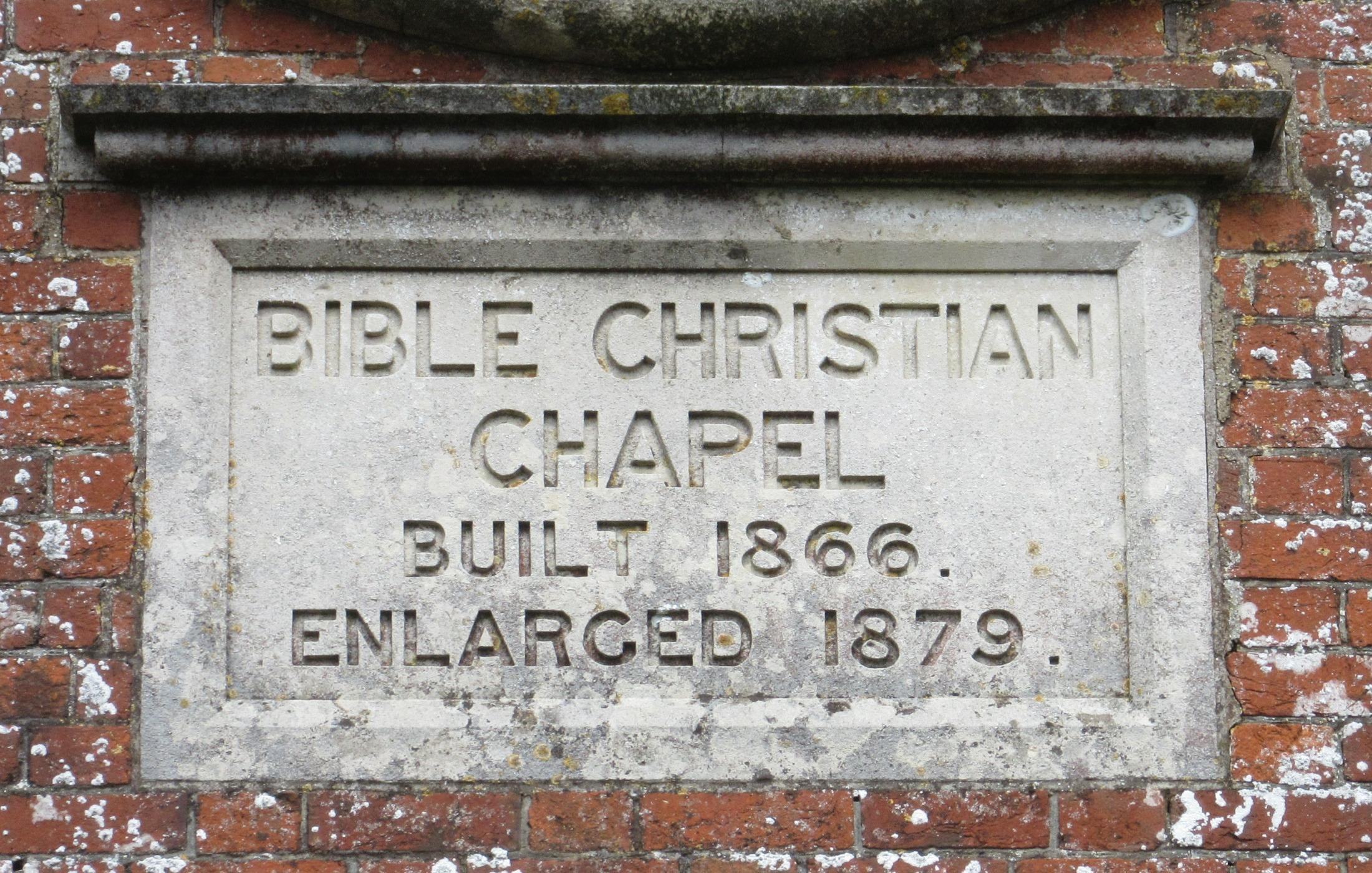 Arreton Methodist Church, Main Road, Arreton, Isle of Wight, England. Built in 1866 and extended in 1879. The church, on the north side of the main road through Arreton village, is still in active use with a Methodist congregation, having originally been built for Bible Christian Methodists. This picture shows the datestone on the façade.